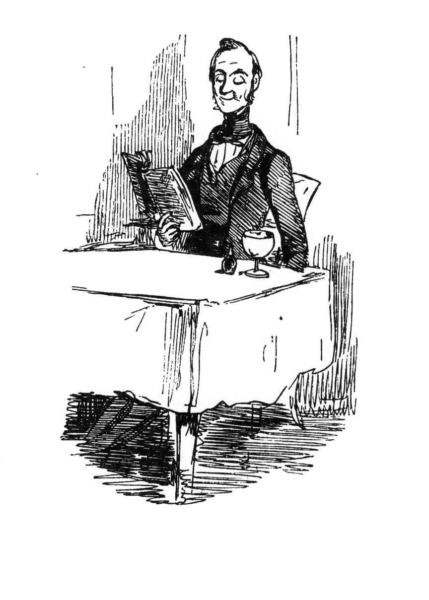 Engraving on wood by W. M. Thackeray himself, for the first edition of The Book of Snobs. Chapter VI, "On some respectable snobs".